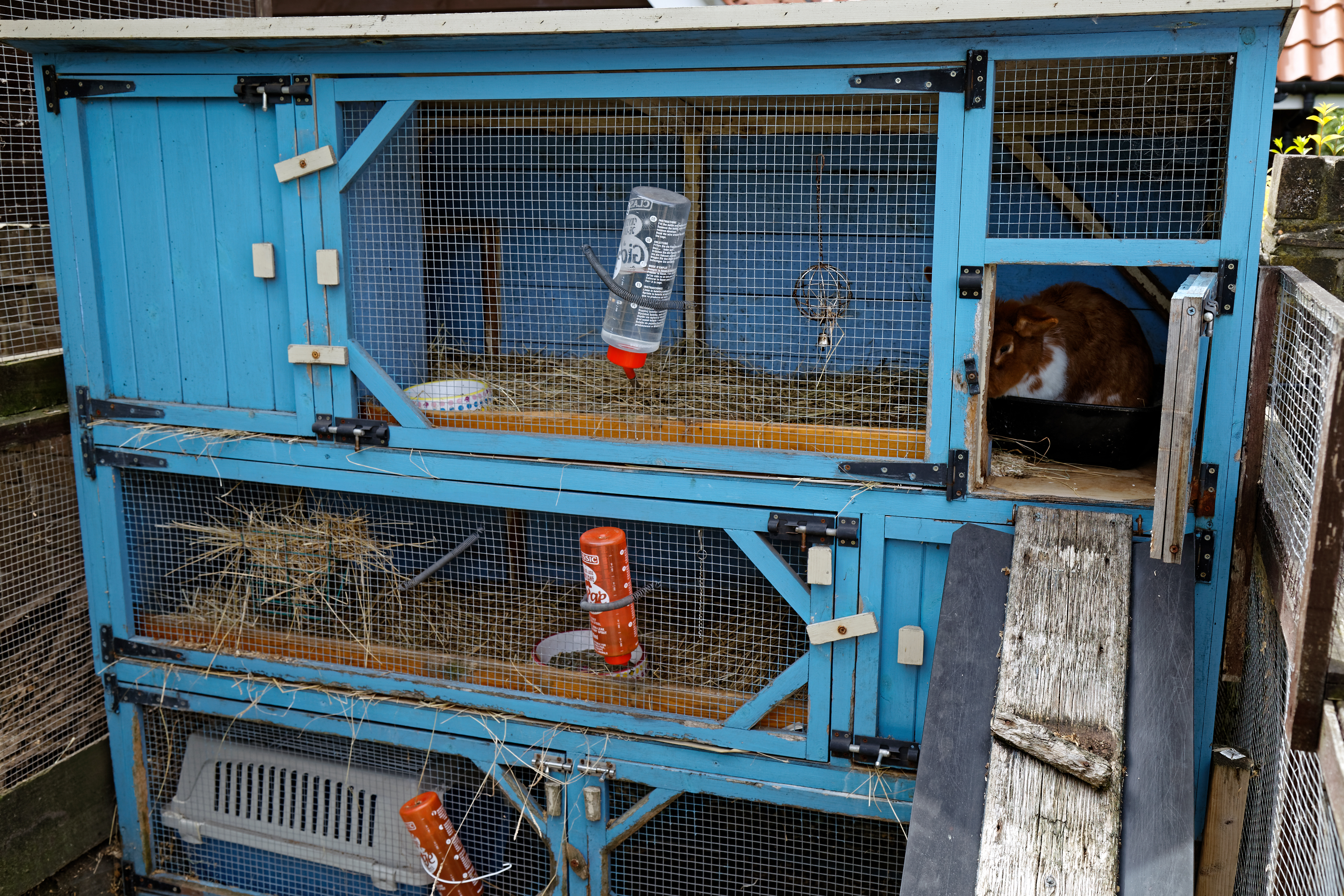 A garden rabbit hutch in Boreham village, Essex, England. Camera: Canon EOS 6D with Canon EF 24-105mm F4L IS USM lens. Software: RAW file lens-corrected, optimized and converted with DxO OpticsPro 11 Elite, and further optimized with Adobe Photoshop CS2.